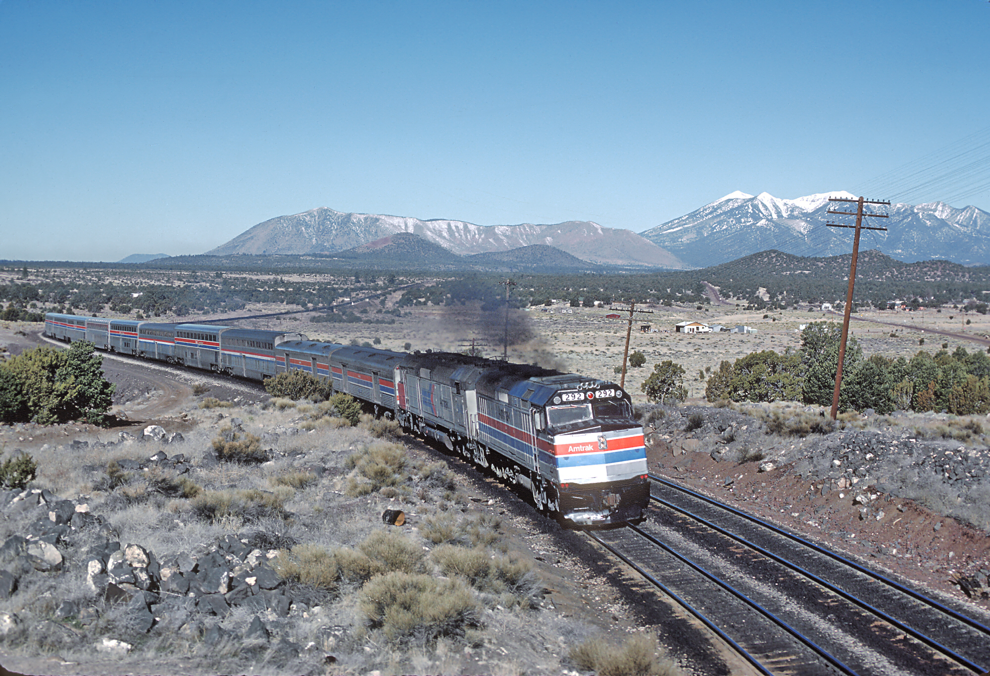 4 of Roger Puta's photos of Amtrak's Train 3, The Southwest Limited, near Darling, AZ taken on three different days in March 1981 during the brief period when re-cabled SDP40Fs mixed with F40PHs on the Superliner Southwest Limited. The re-cabling was to provide the F40PF's HEP, i.e. electricity generated, to the Superliners. AMTK 292 and a SDP40F up front This file comes from the Roger Puta collection, which passed to Mel Finzer. They were scanned and posted by Marty Bernard, are in the Public Domain. Attribution to "Roger Puta" is not required for a PD image, but should be done as a matter of courtesy to a major Commons contributor. Mel Finzer, the heirs of this work's copyright holder (usually the creator) have released it into the public domain. This applies worldwide. In some countries this may not be legally possible; if so: The heirs of the creator grant anyone the right to use this work for any purpose, without any conditions, unless such conditions are required by law. See This work is free and may be used by anyone for any purpose. If you wish to use this content, you do not need to request permission as long as you follow any licensing requirements mentioned on this page.